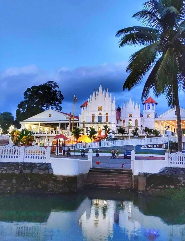 Front View of the church